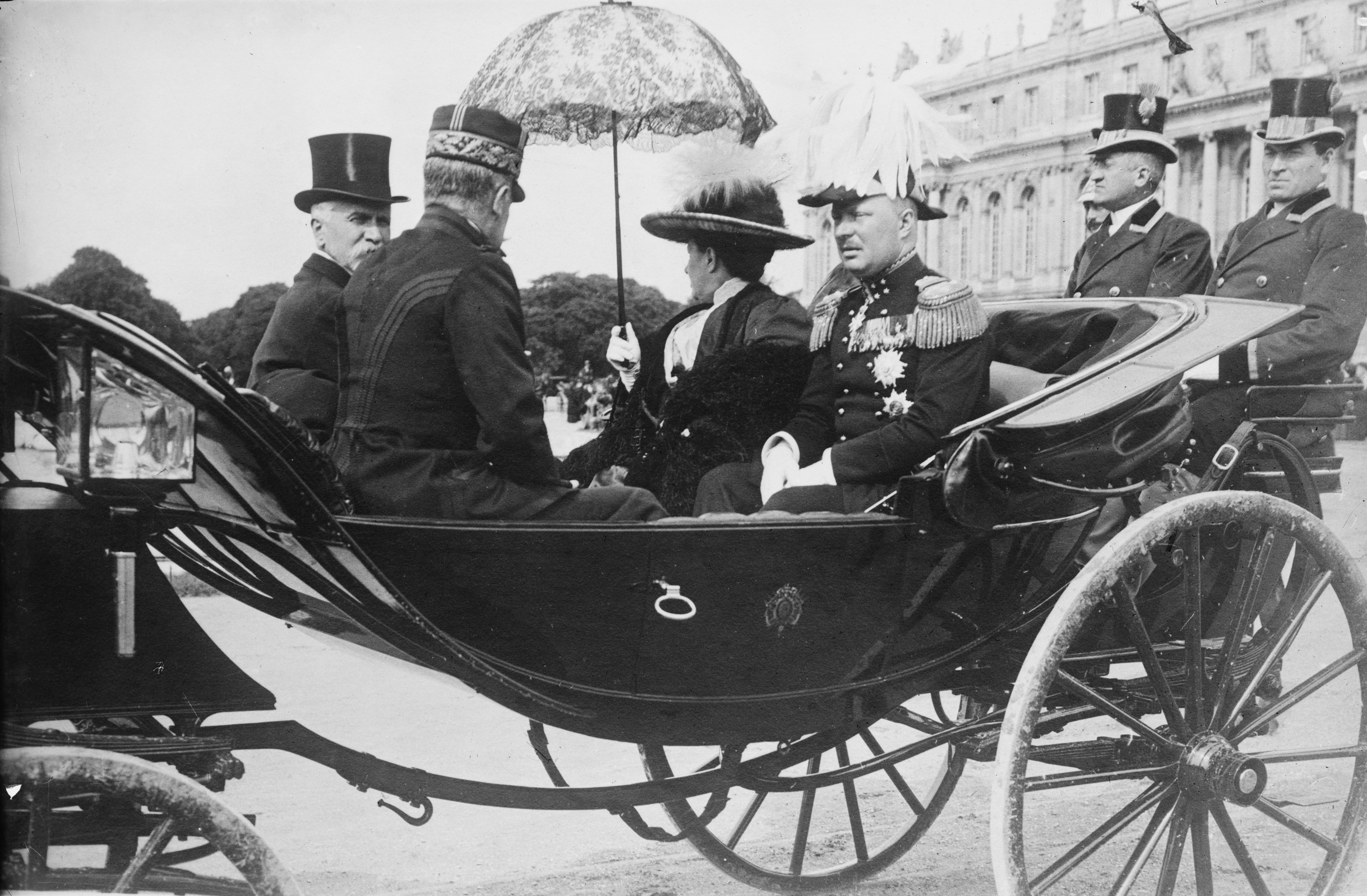 Hendrik of Mecklenburg-Schwerin